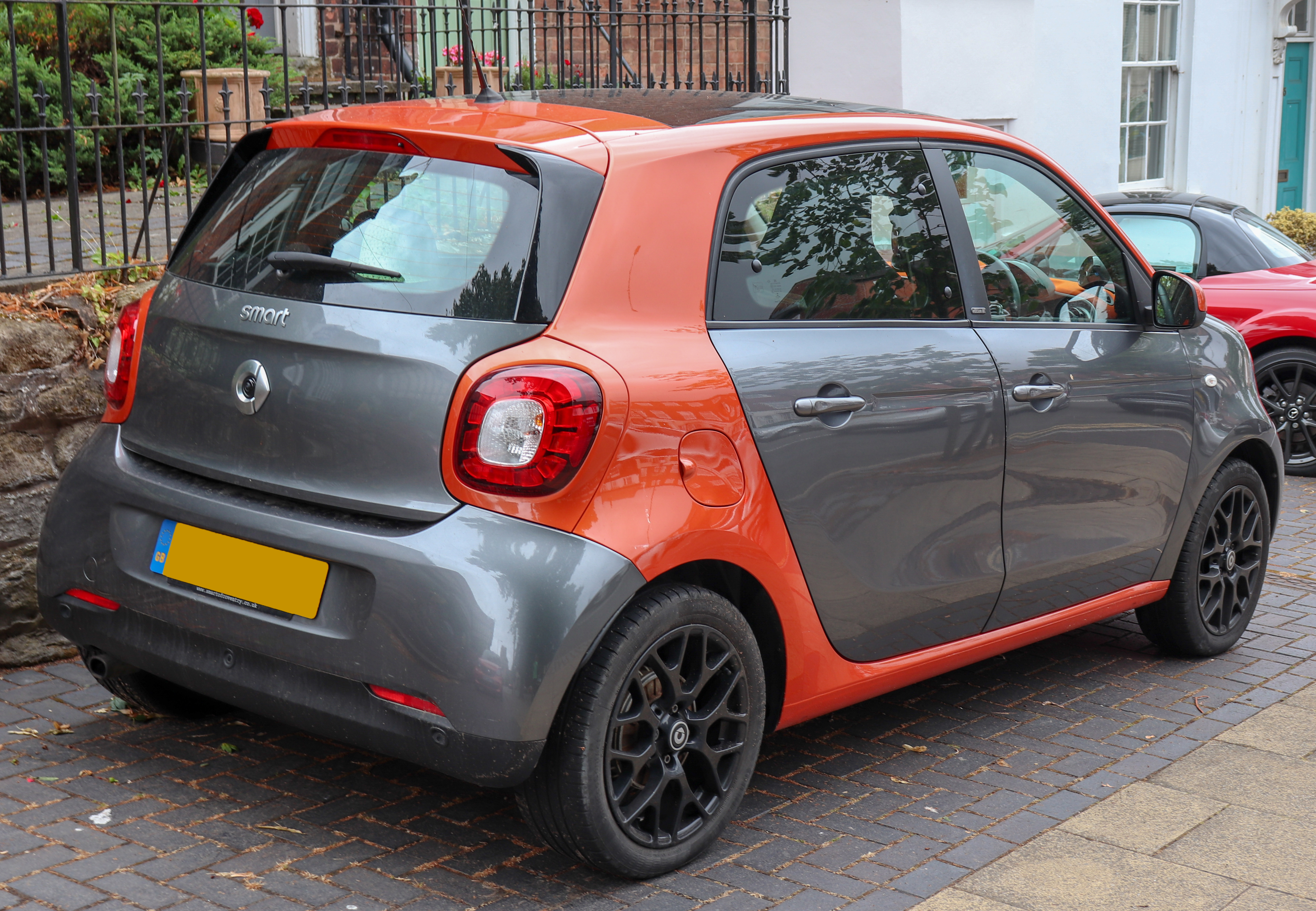 2015 Smart Forfour Edition1 1.0 Rear Taken in Warwick